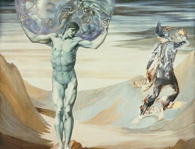 Atlas Turned to Stone (1882) by Edward Burne-Jones, Mixed Media on Paper, Southampton City Art Gallery